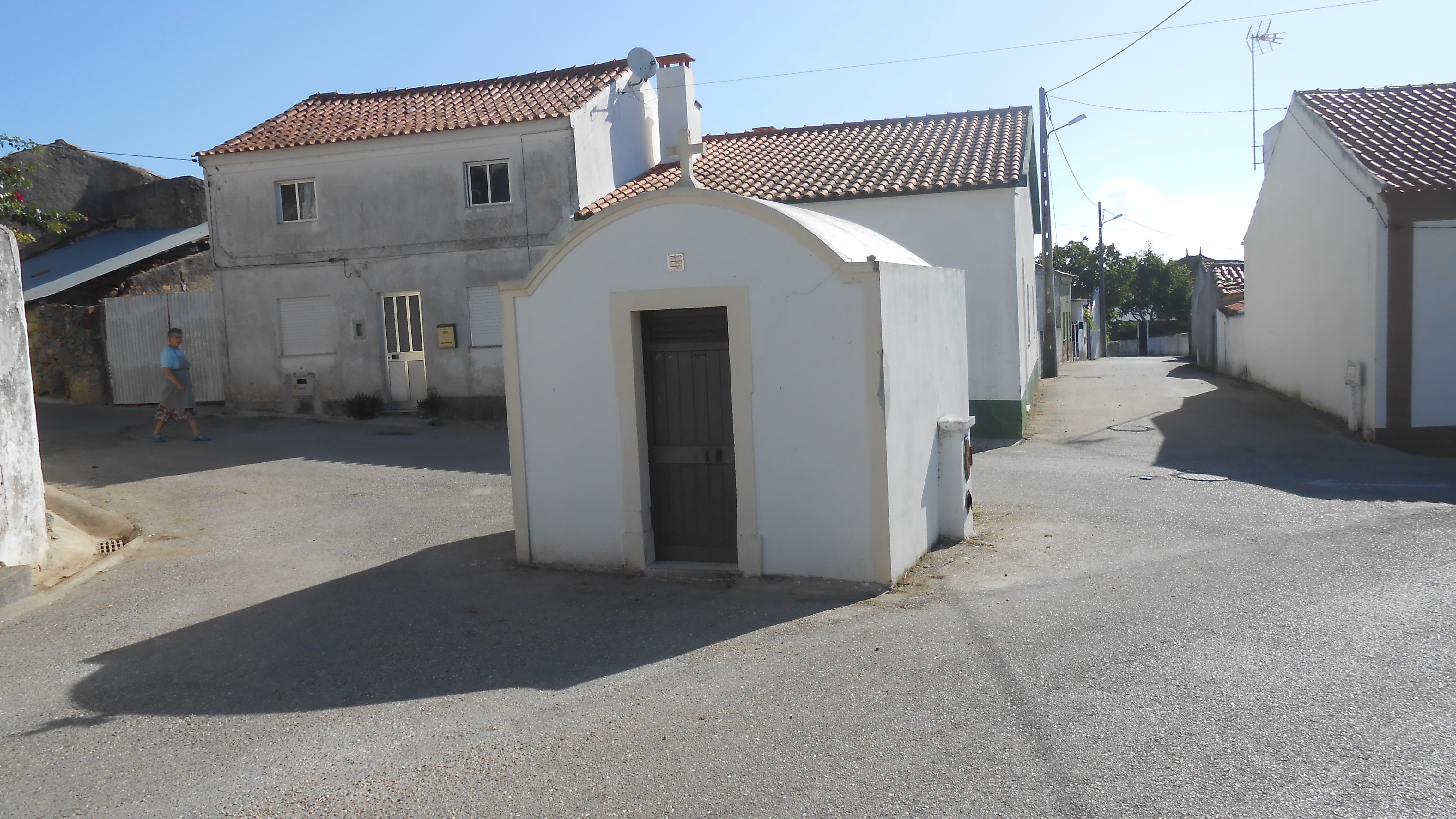 The chapel of Nossa Senhora dos Aflitos in Carvalhal da Azoia, a small village in the Samuel parish, Soure, Portugal